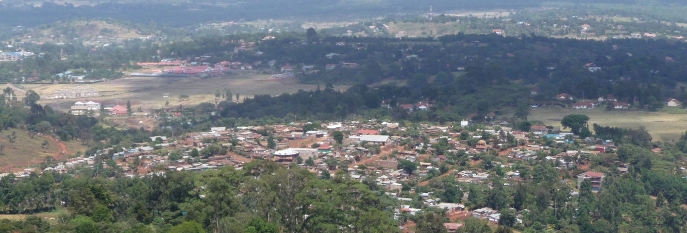 Ngong town, Kenya